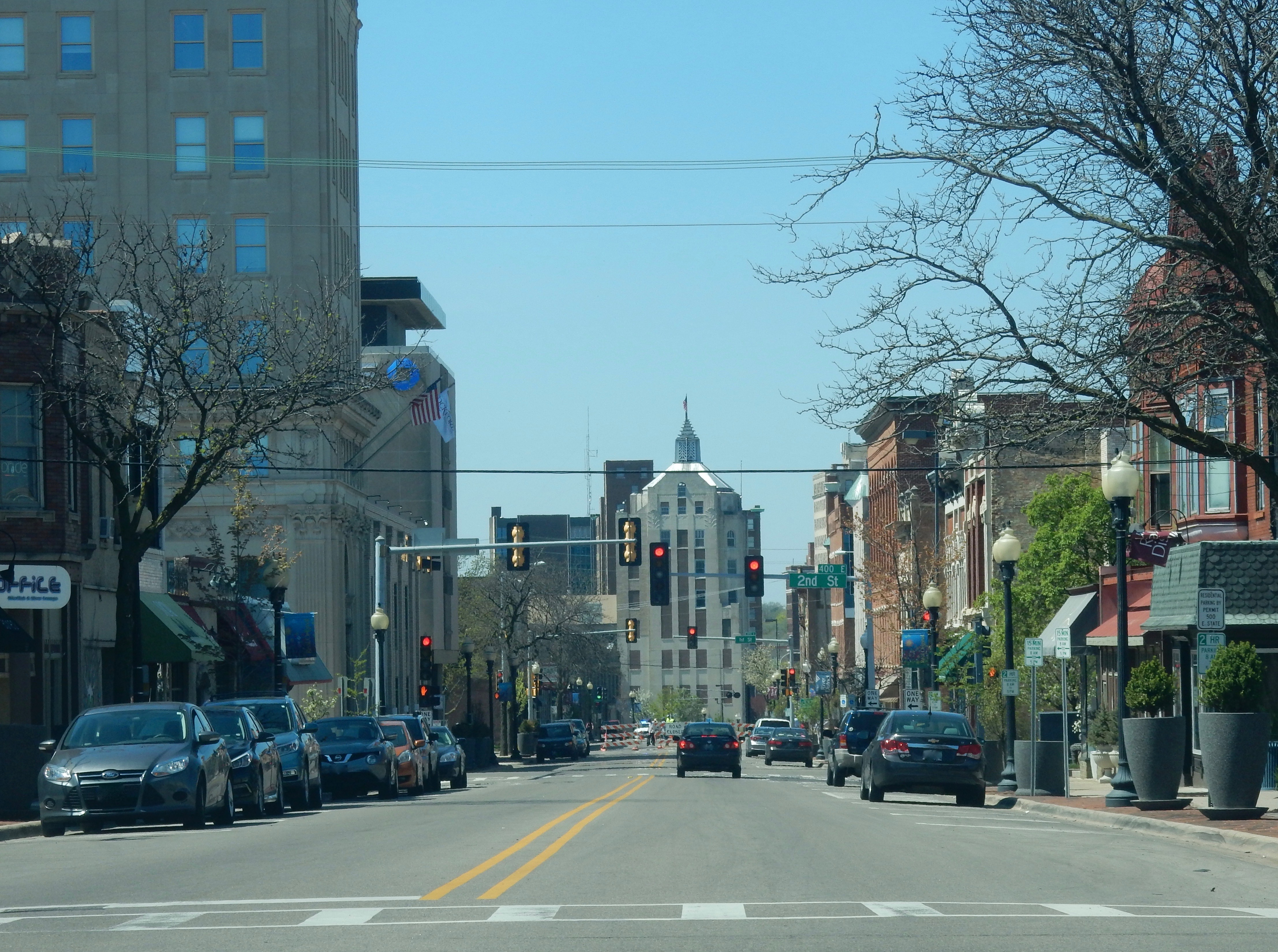 Rockford East State Street Corridor looking west from 3rd Street, April 23rd, 2017